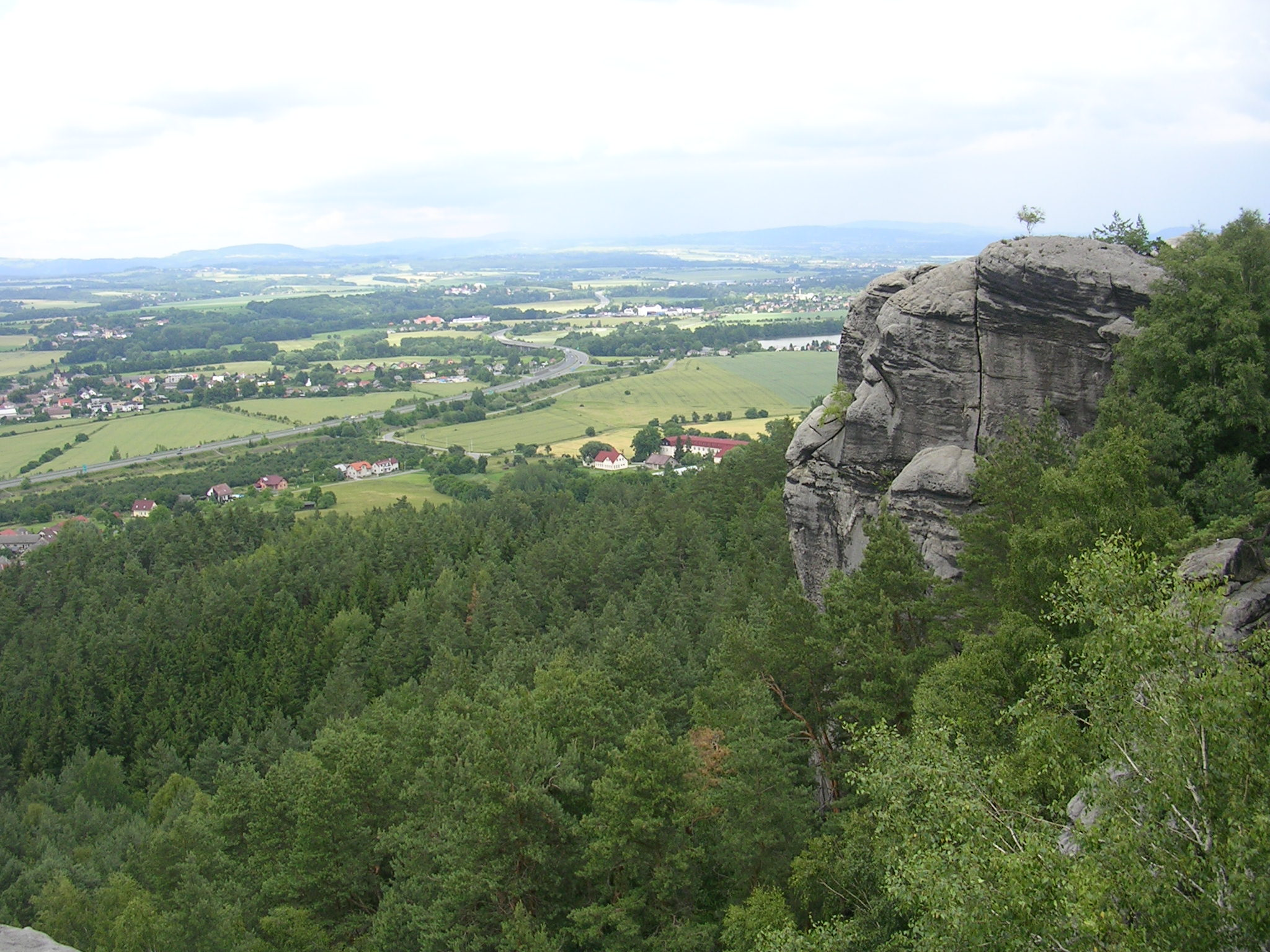 A view from Drábské světničky (Mladá Boleslav District, Central Bohemian Region, the Czech Republic).